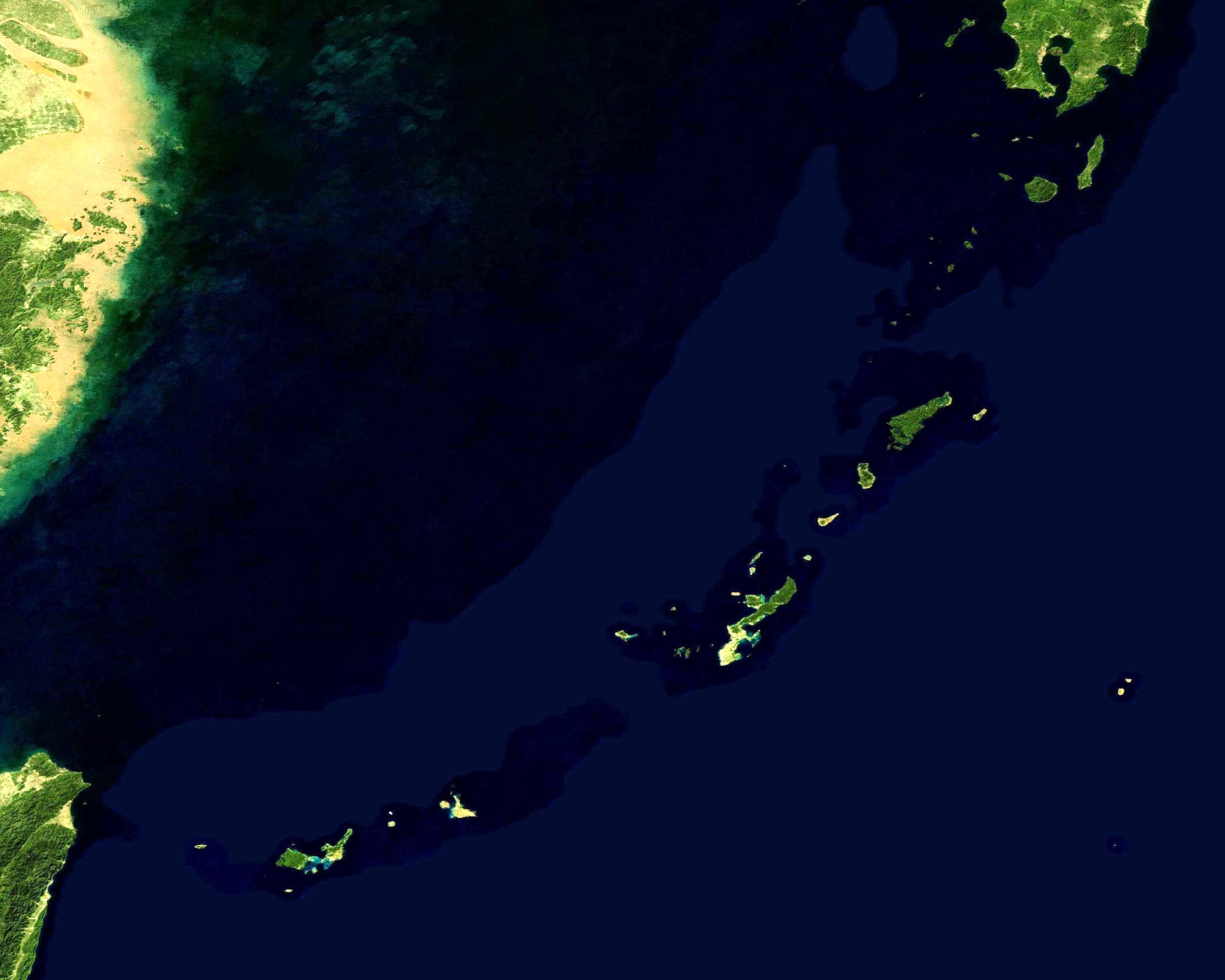 Nansei Islands (Nansei Shotō ), Japan.